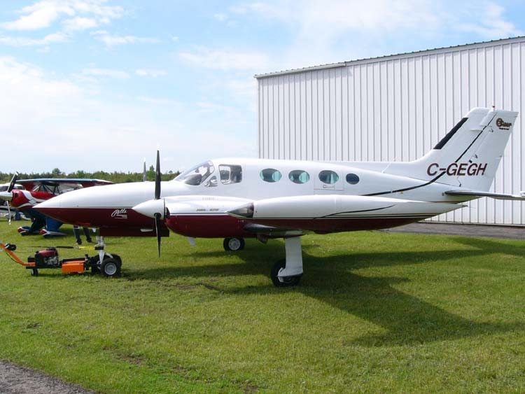 Cessna 421B (C-GEGH). I took this photo at Smiths Fall Ontario on 04 June 2006